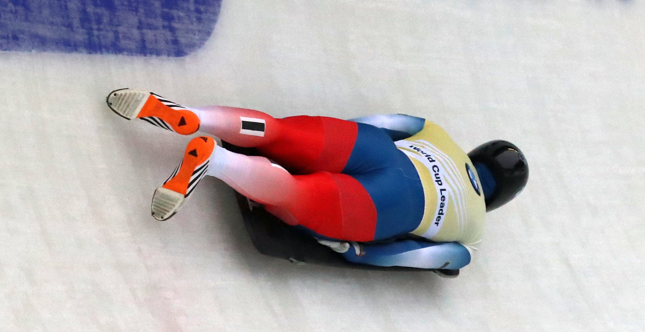 Men's World Cup race at the 2018/19 Skeleton World Cup in Altenberg